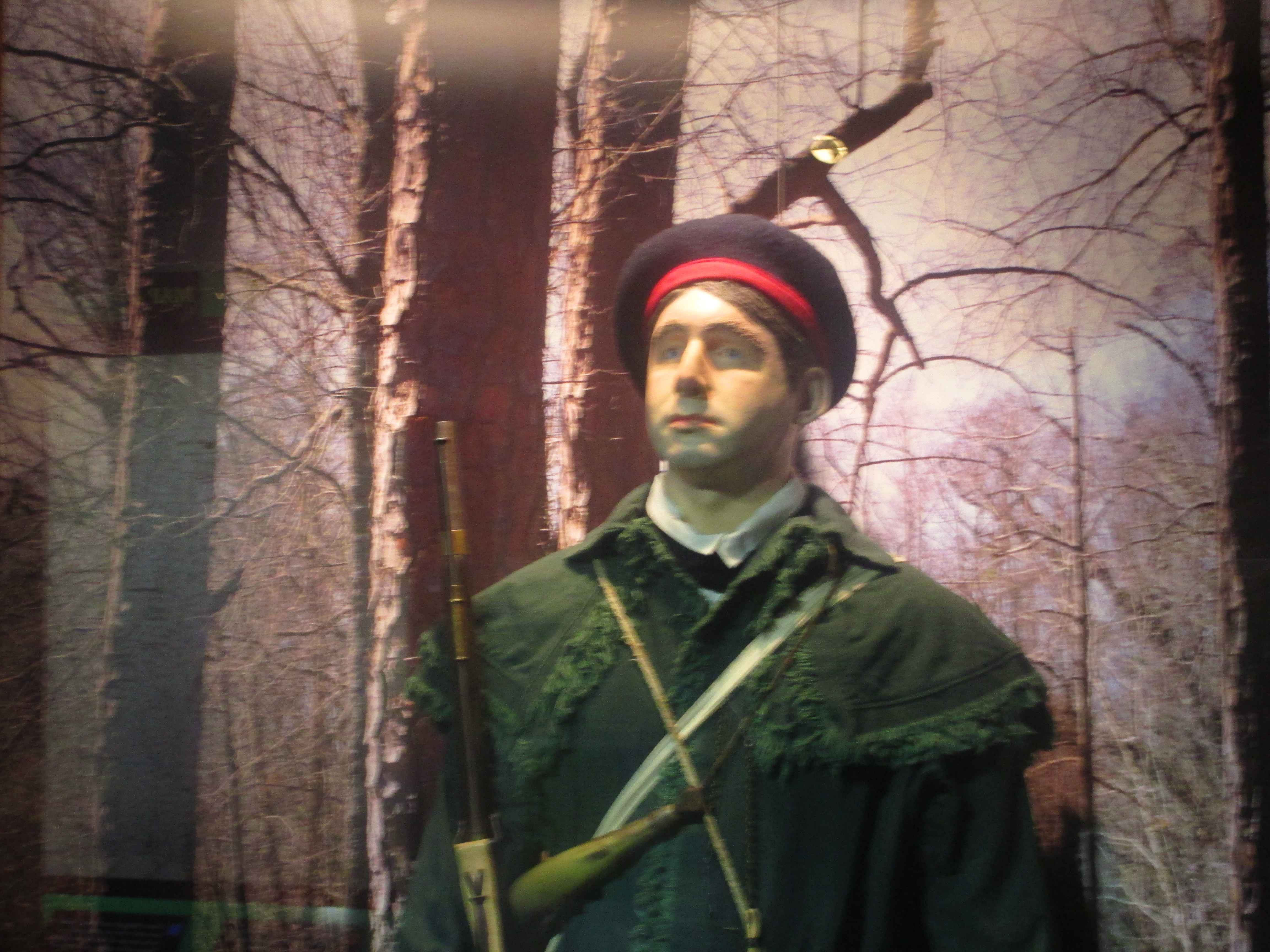 I took photo of reproduction of a Scottish Highlander soldier at Moores Creek National Battlefield, with Canon camera.